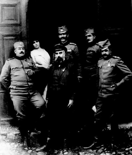 Photograph of indictees at the Salonika Trial, after verdict (23 May 1917). They were executed in June by firing squad. (Who is the mysterious girl in the background?)